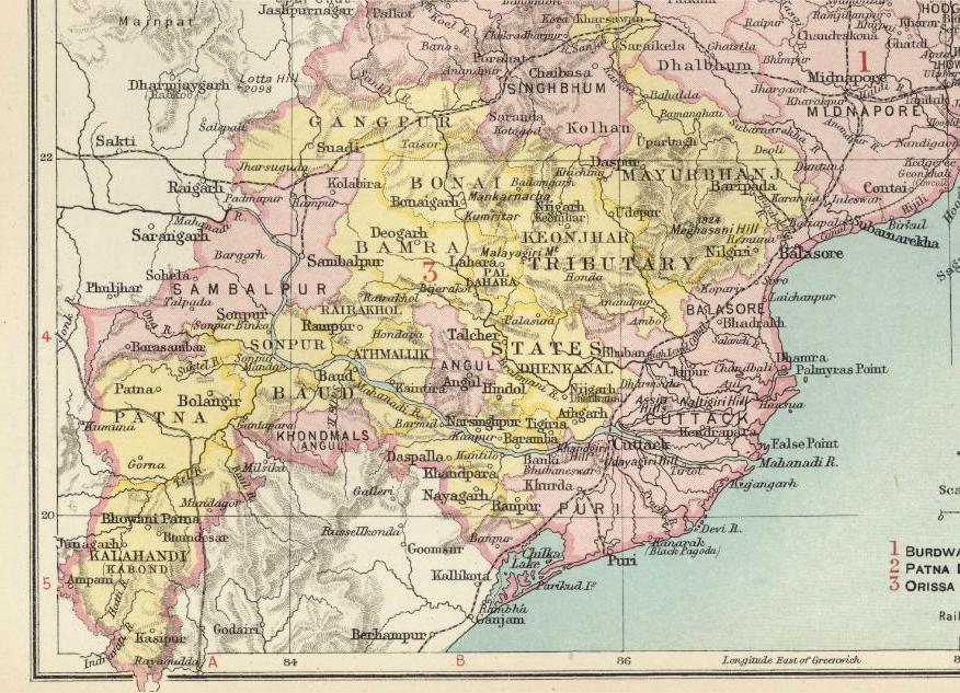 1909 Imperial Gazetteer of India Bengal map section